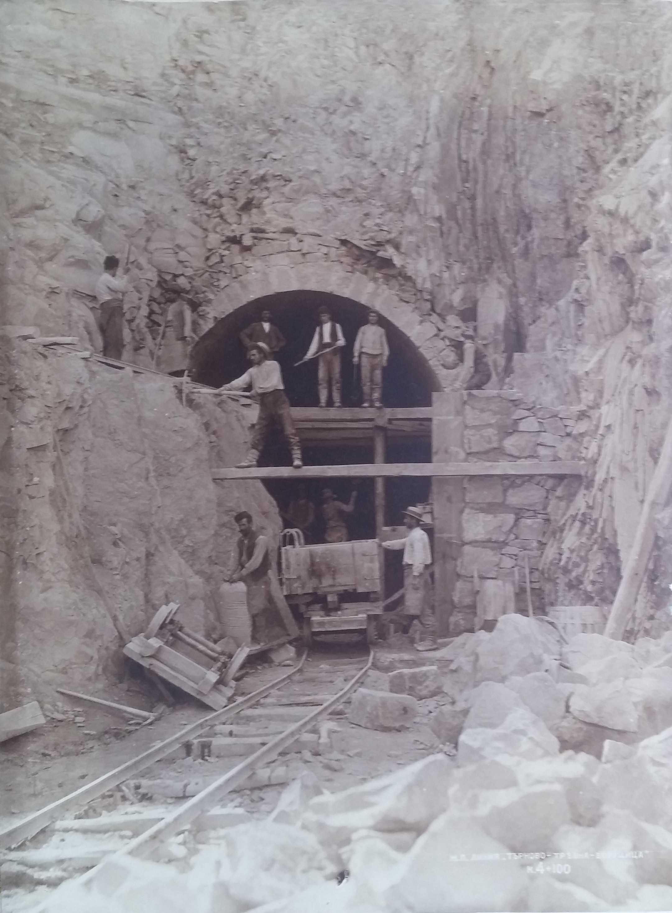 Construction of the railway line Veliko Tarnovo - Tryavna - Borushtitsa.